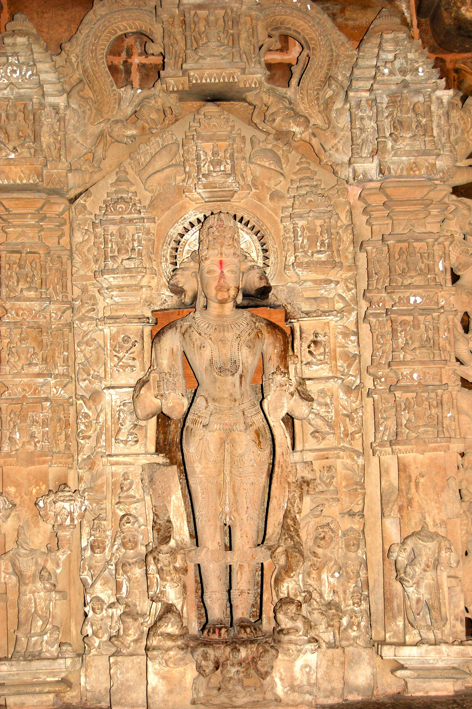 Main Idol Sculpture at Lakshamana Temple in Khajuraho Group of Monuments, India.